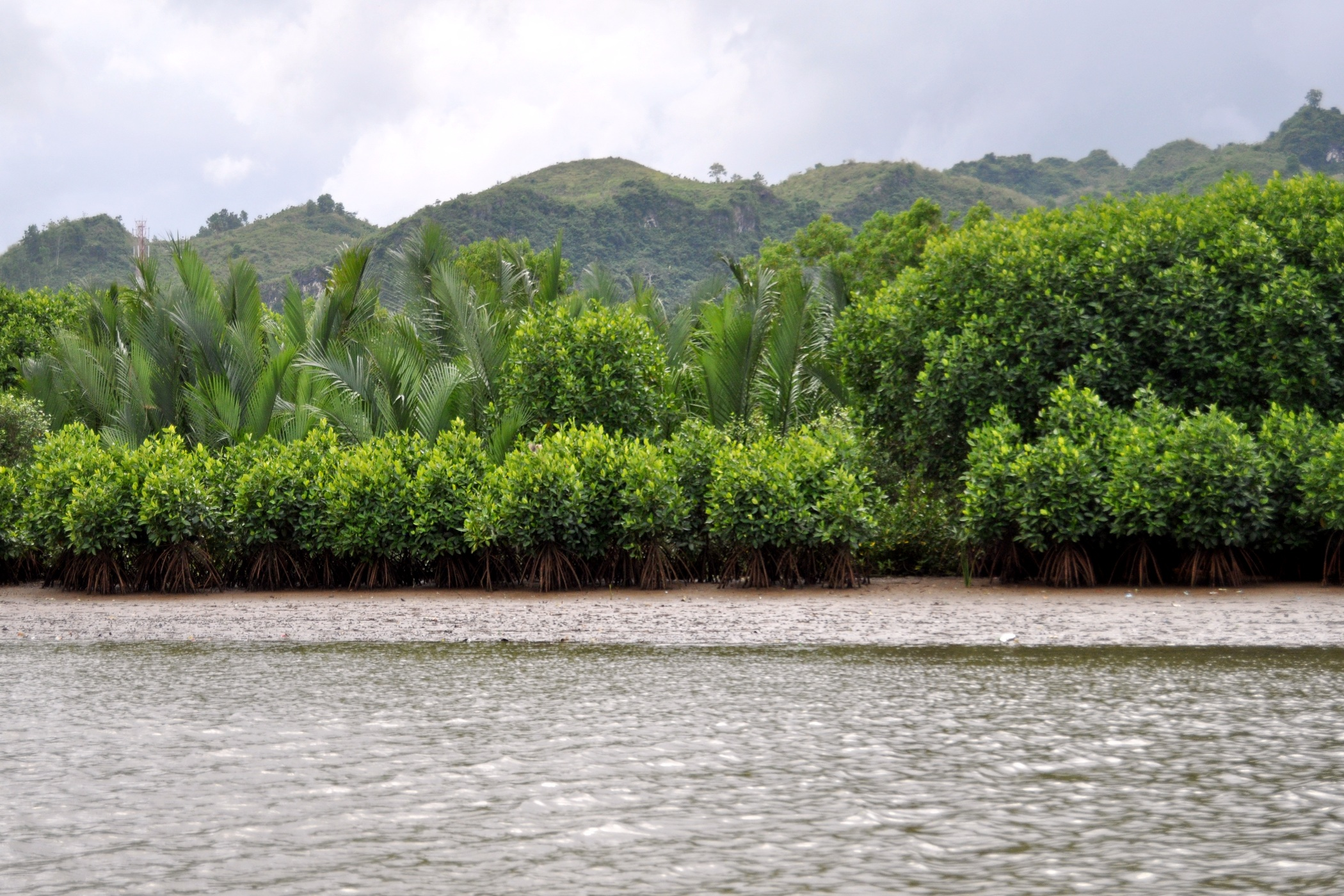 Mangrove at the Bodo riverbank in Ayah, Kebumen Regency, Central Java.